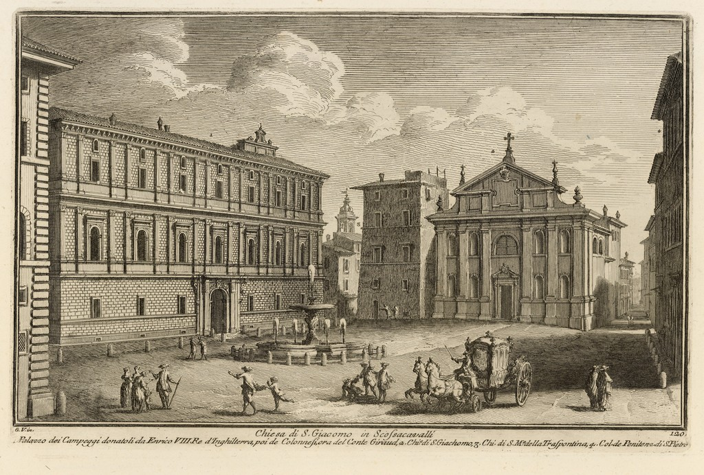 1) Palazzo Giraud; 2) S. Giacomo; 3) S. Maria in Traspontina; 4) Collegio de' Penitenzieri.